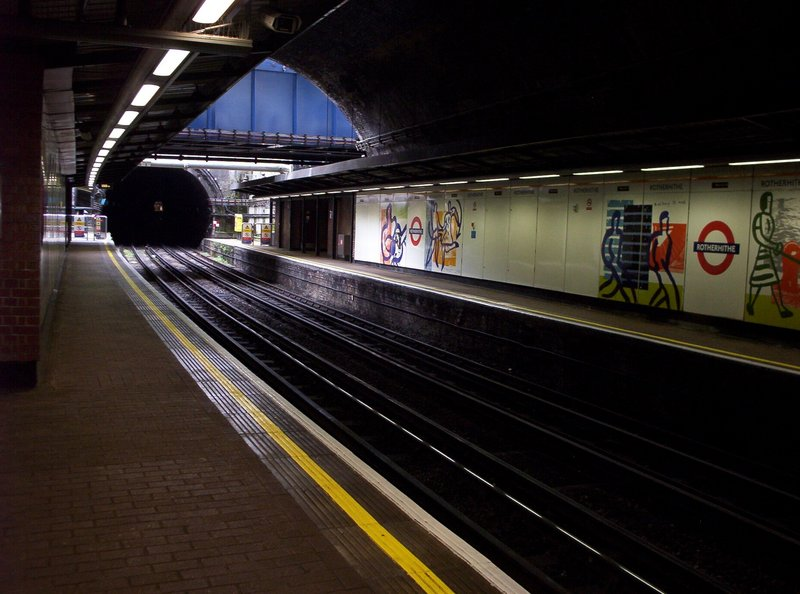 The platform at Rotherhithe Tube Station - looking towards Canada Water.